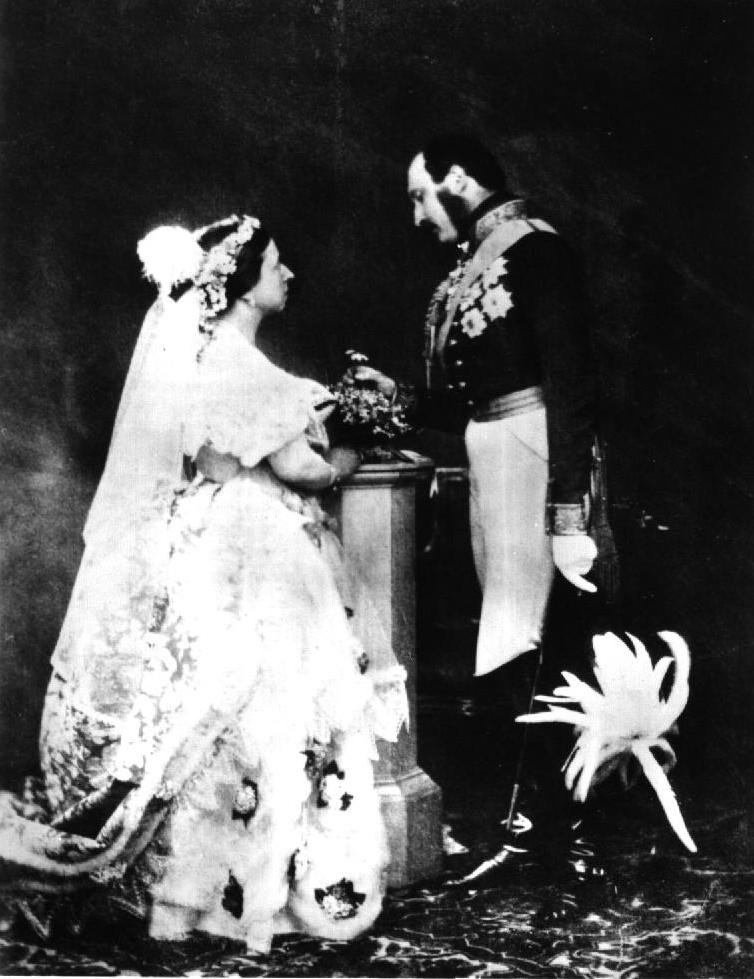 Queen Victoria and Prince Albert in court dress after a reception